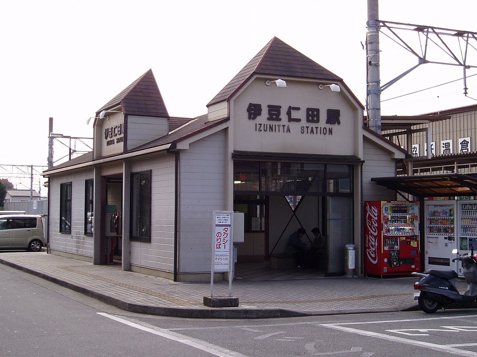 Isuhakone Railway Company, Isu-Nitta Sta. 2007.11.26 Photo by Cassiopeia_sweet.